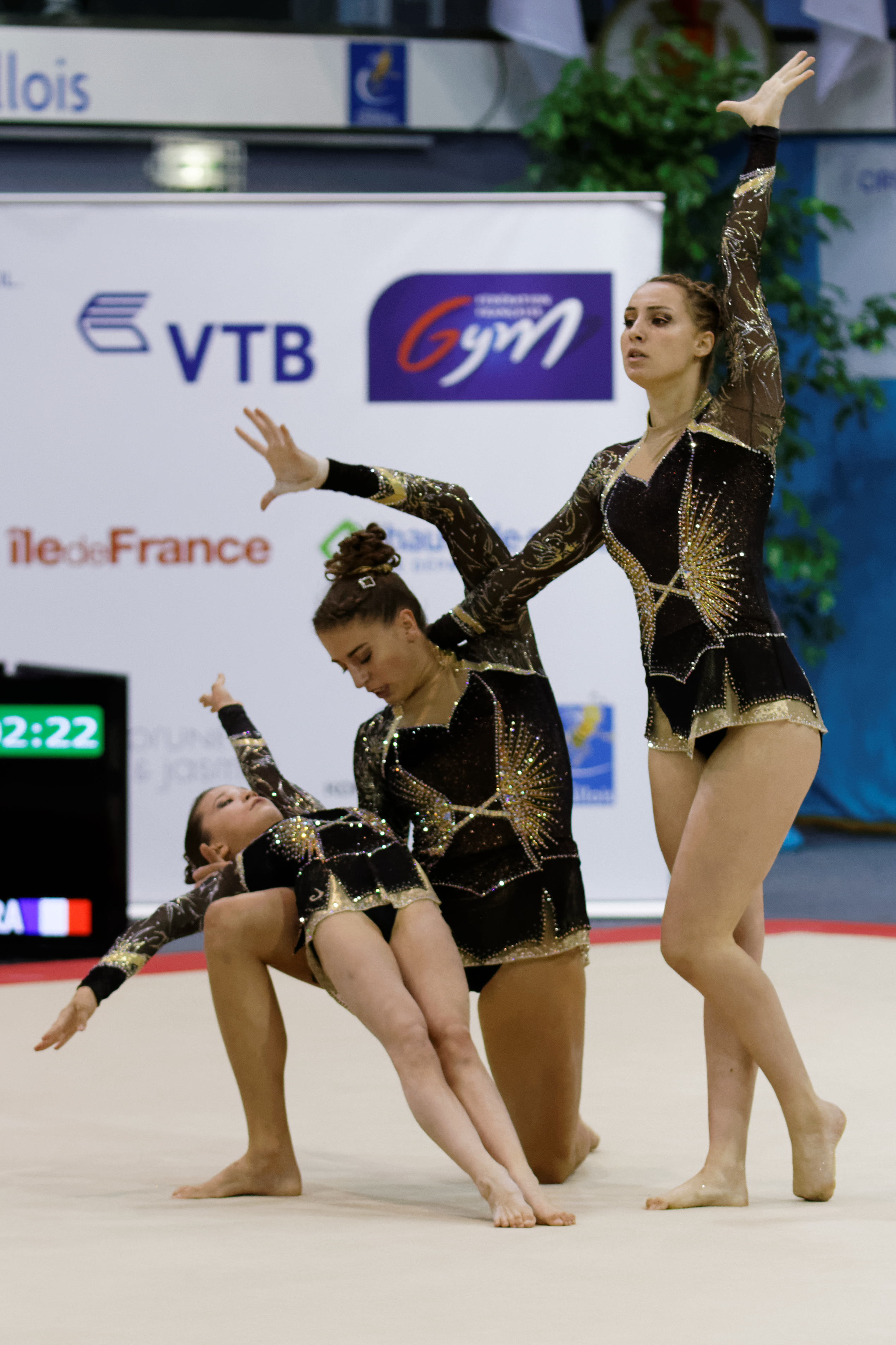 2014 Acrobatic Gymnastics World Championships, 10th-12 July, Levallois-Perret, France. Qualifications: women's group. France.